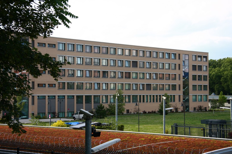 Buildung of the Federal Office for the Protection of the Constitution in Berlin